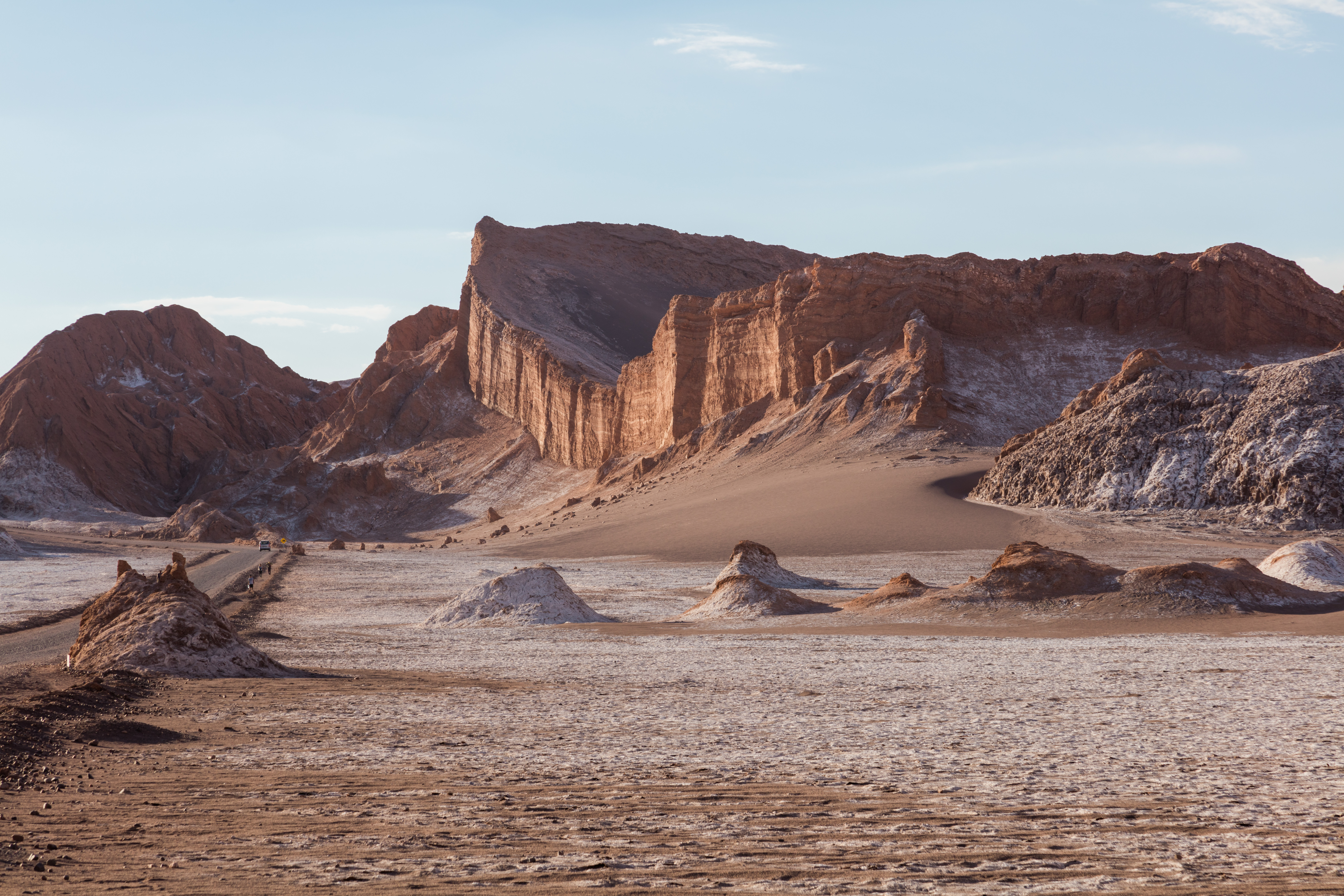 Amphitheater, Valle de la Luna, San Pedro de Atacama, Chile